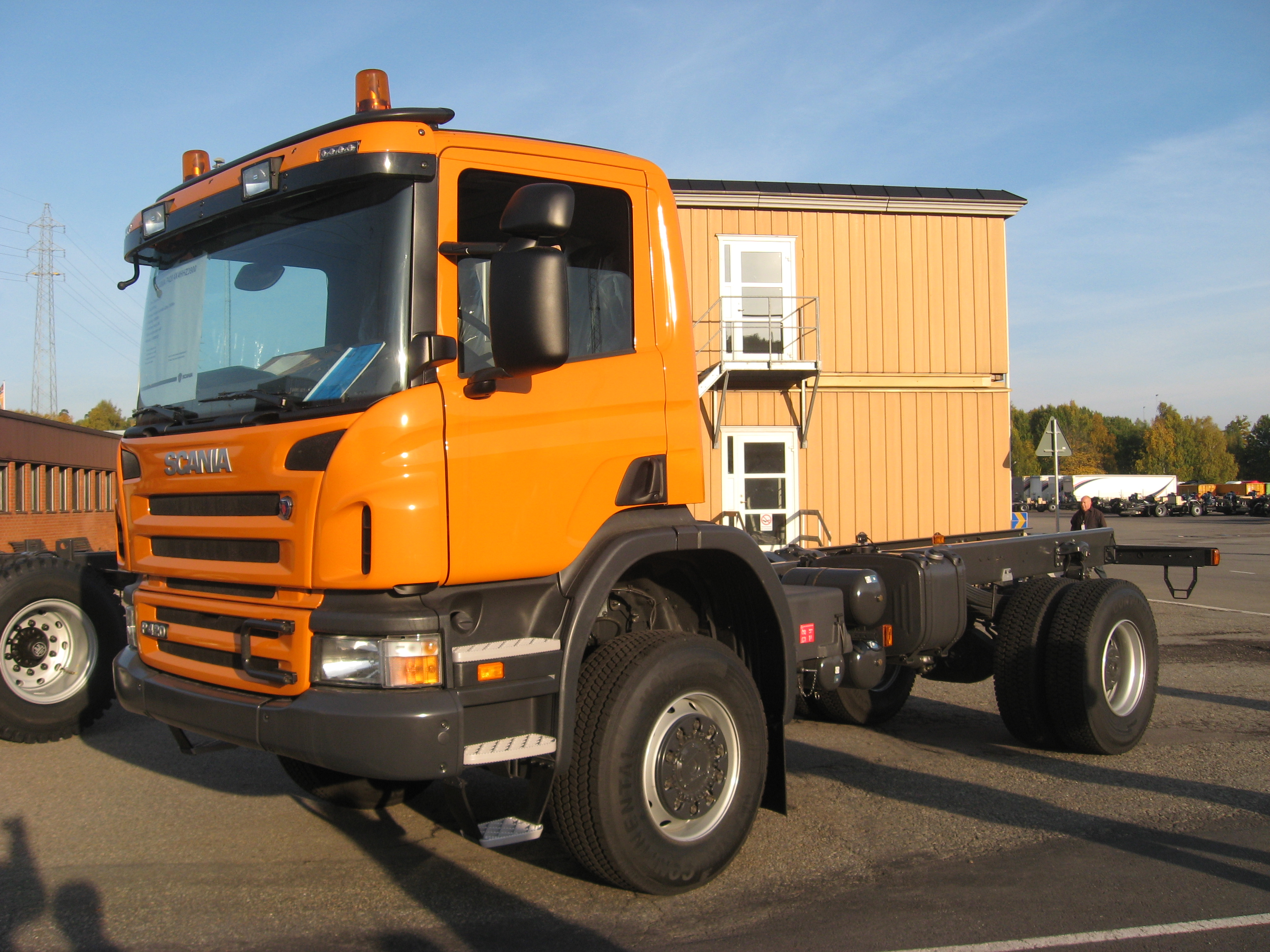 Scania P420 4x4HHZ3900 CP14L cab. Inline 6 cylinder engine giving 420 hp, 2100Nm. GRS905 gearbox.